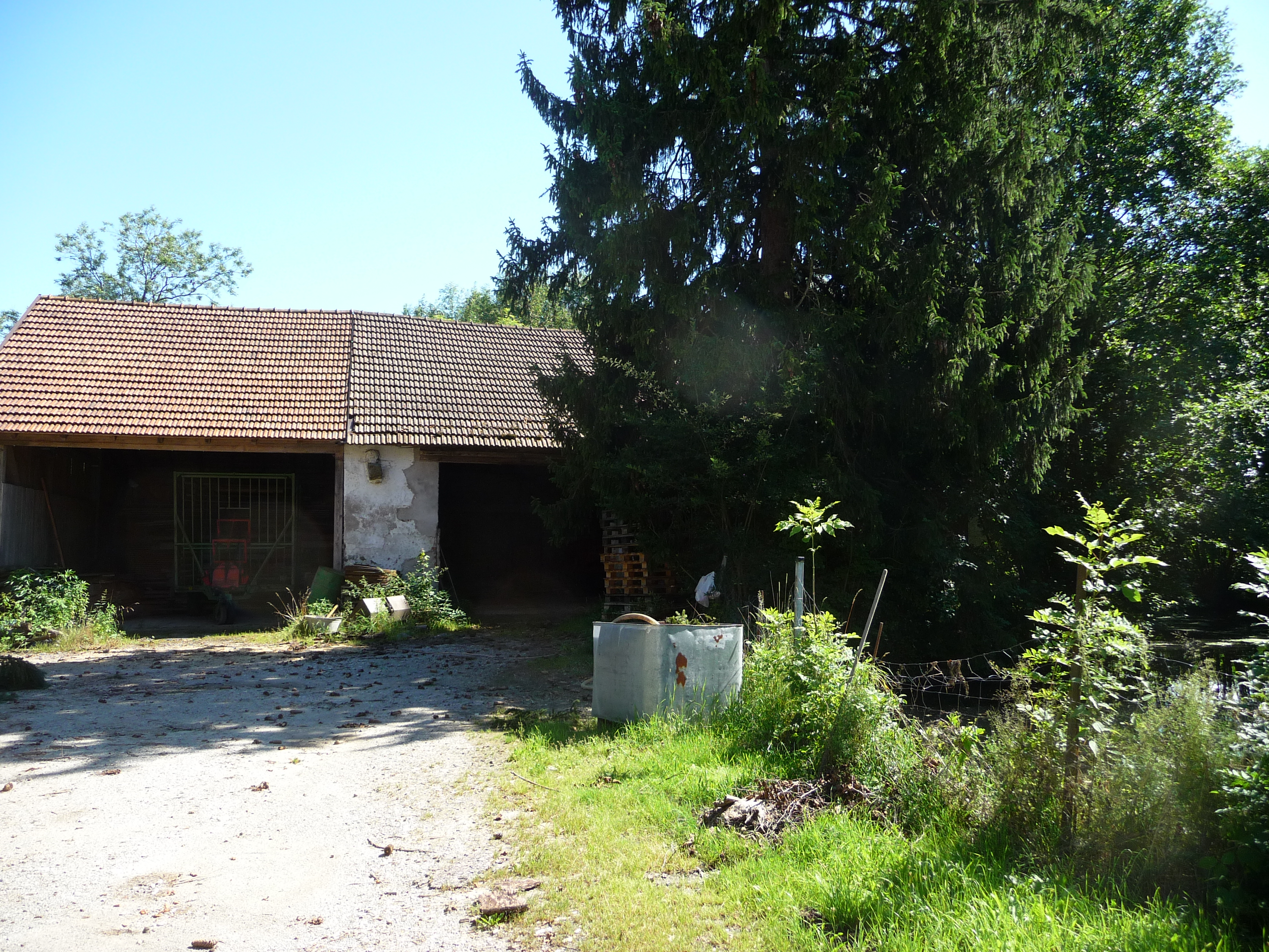 Remains of Teufenbach castle, Unterteufenbach, Sankt Florian am Inn, Upper Austria